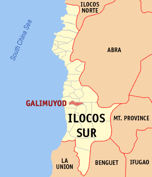 Map of Ilocos Sur showing the location of Galimuyod